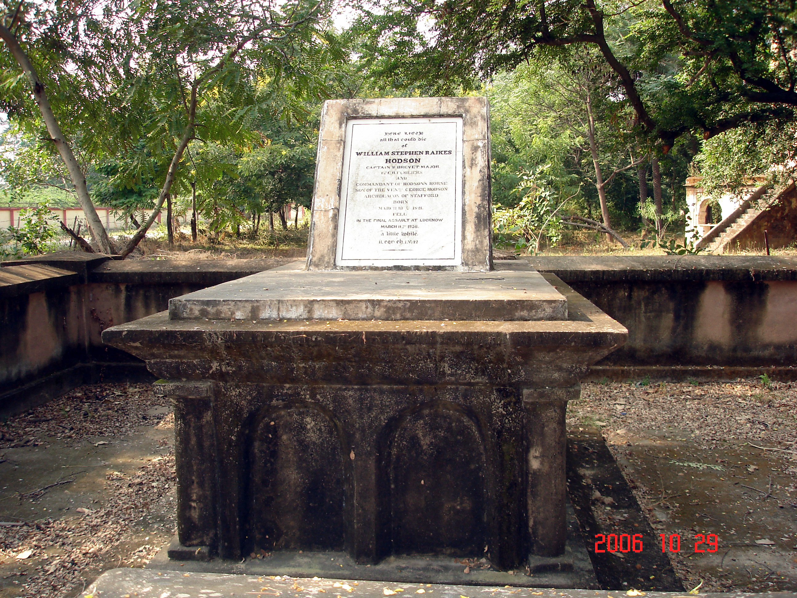 William Hodson - Here lies the man who killed the sons of Bahadur Shah Zafar in cold blood and imprisoned Bahadur Shah Zafar himself. He was killed in Begum Kothi in the place of which now stands the Janpath Market .